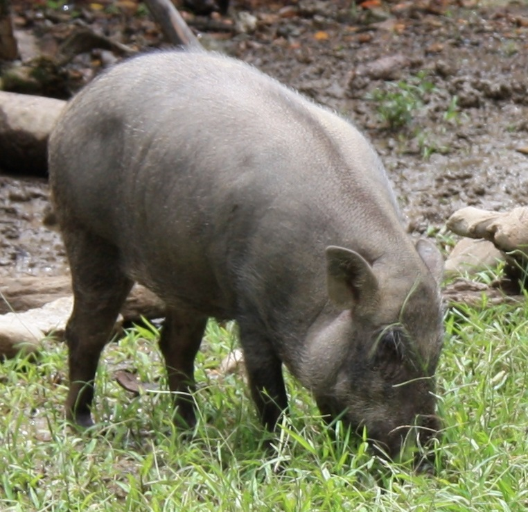 TáiběiWénshān DistrictTáiběi ZooFormosan Wild boarSus scrofa taivanus